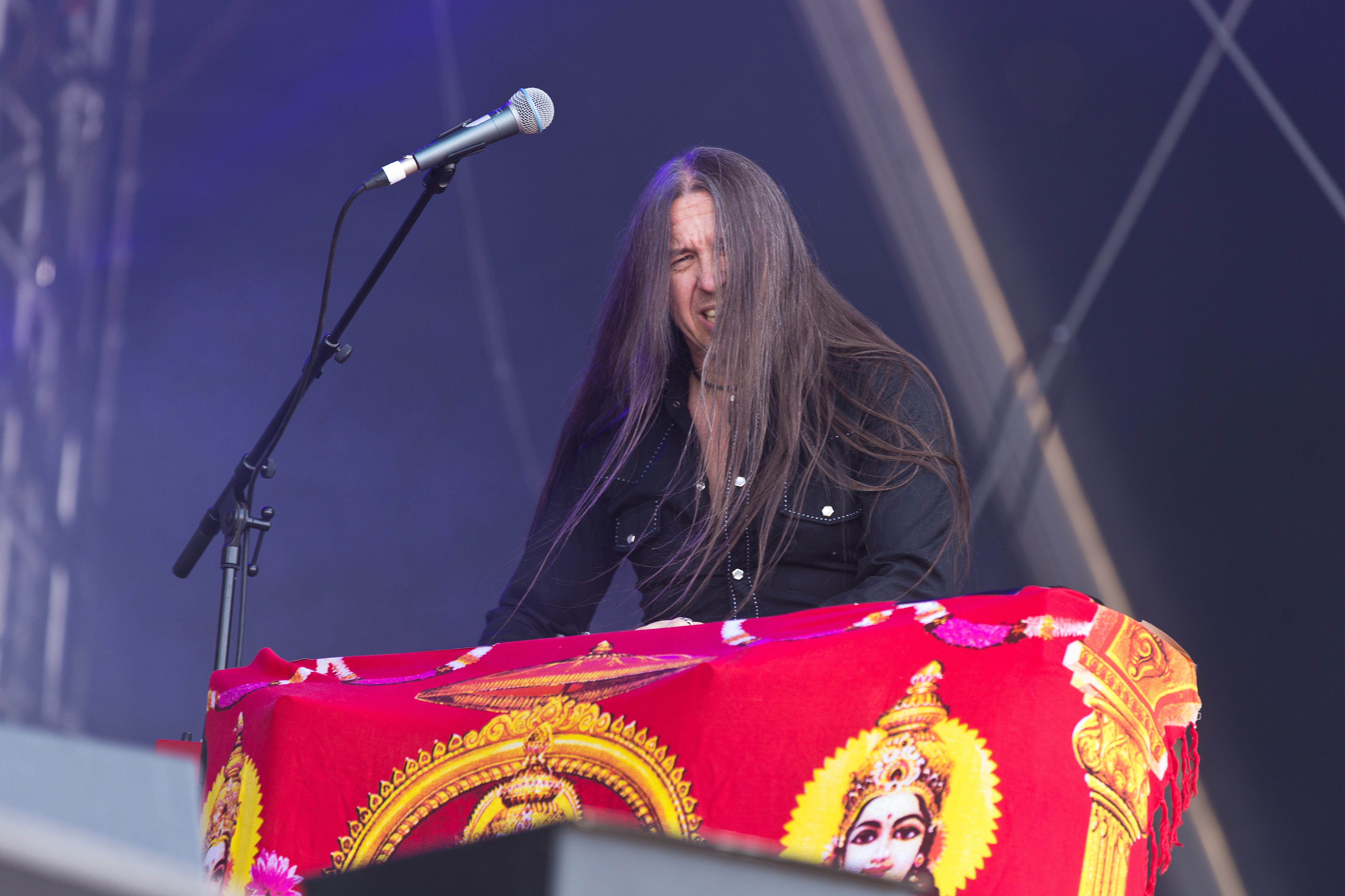 The Swedish stoner metal band Spiritual Beggars at the Rockharz Open Air 2016 in Ballenstedt/Germany.